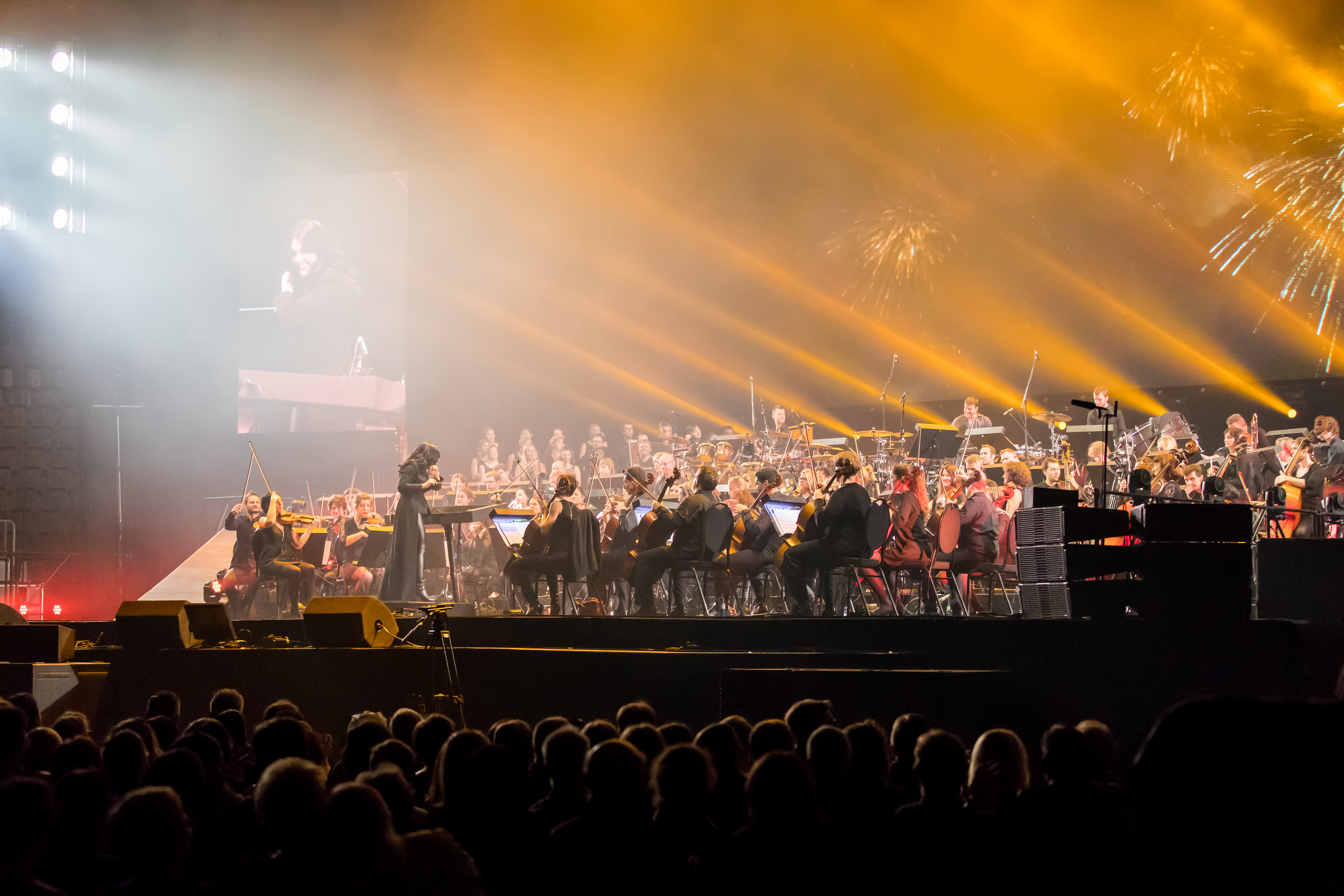 during Night of the Proms at SAP Arena, Mannheim, Baden Württemberg, Germany on 2016-11-25, Photo: Sven Mandel Simple Minds, Natasha Bedingfield, Stefanie Heinzmann, John Miles, Ronan Keating, Time For Three